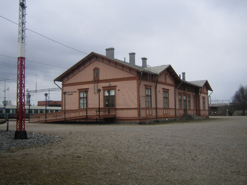 The old station building at the Pieksämäki railway station in Pieksämäki, Finland. The building is now a museum.